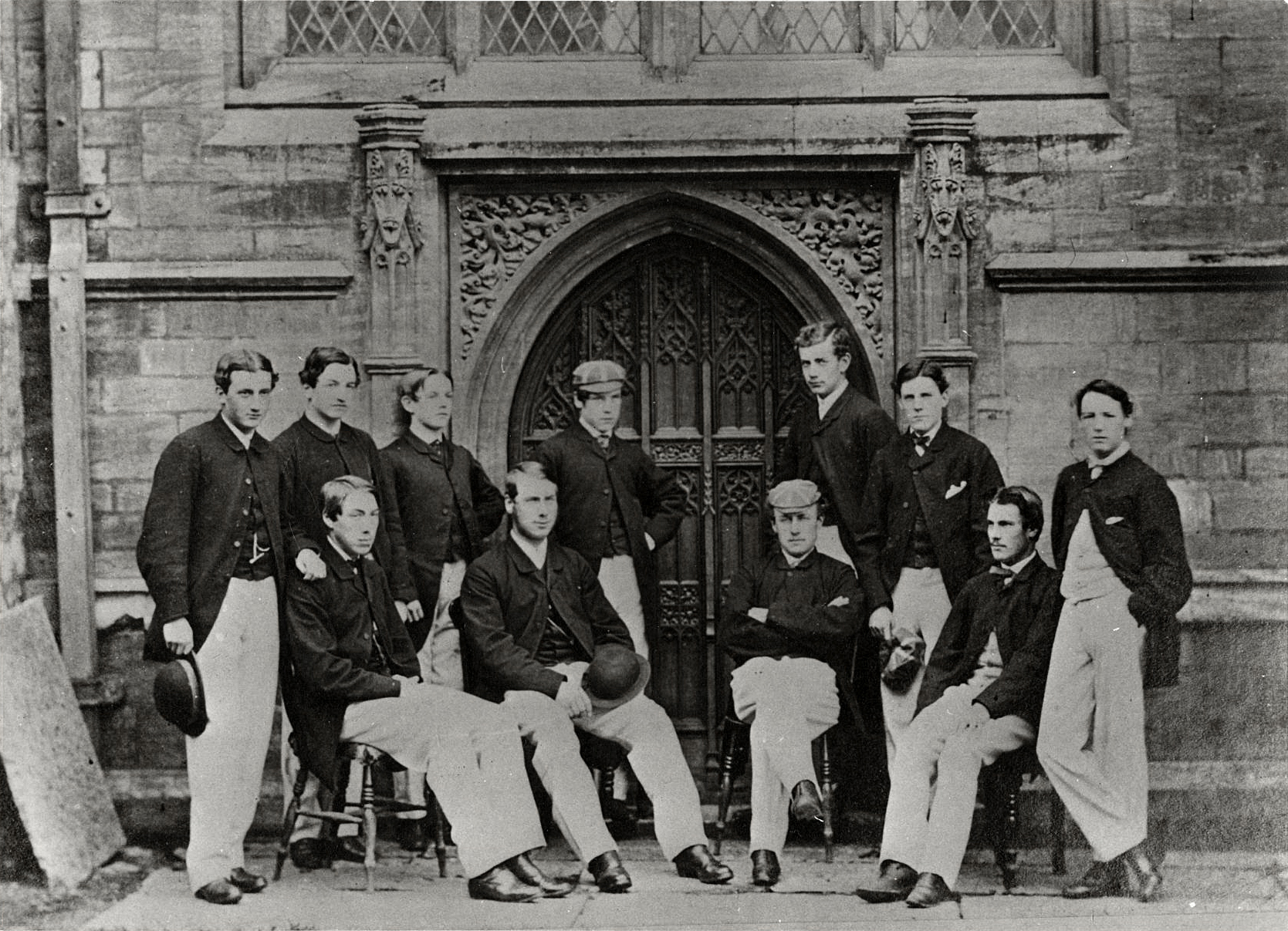 Sherborne 1st XI 1863